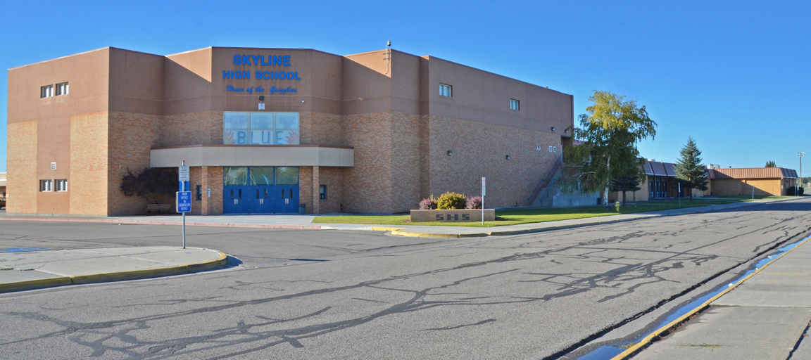 Skyline High School side view